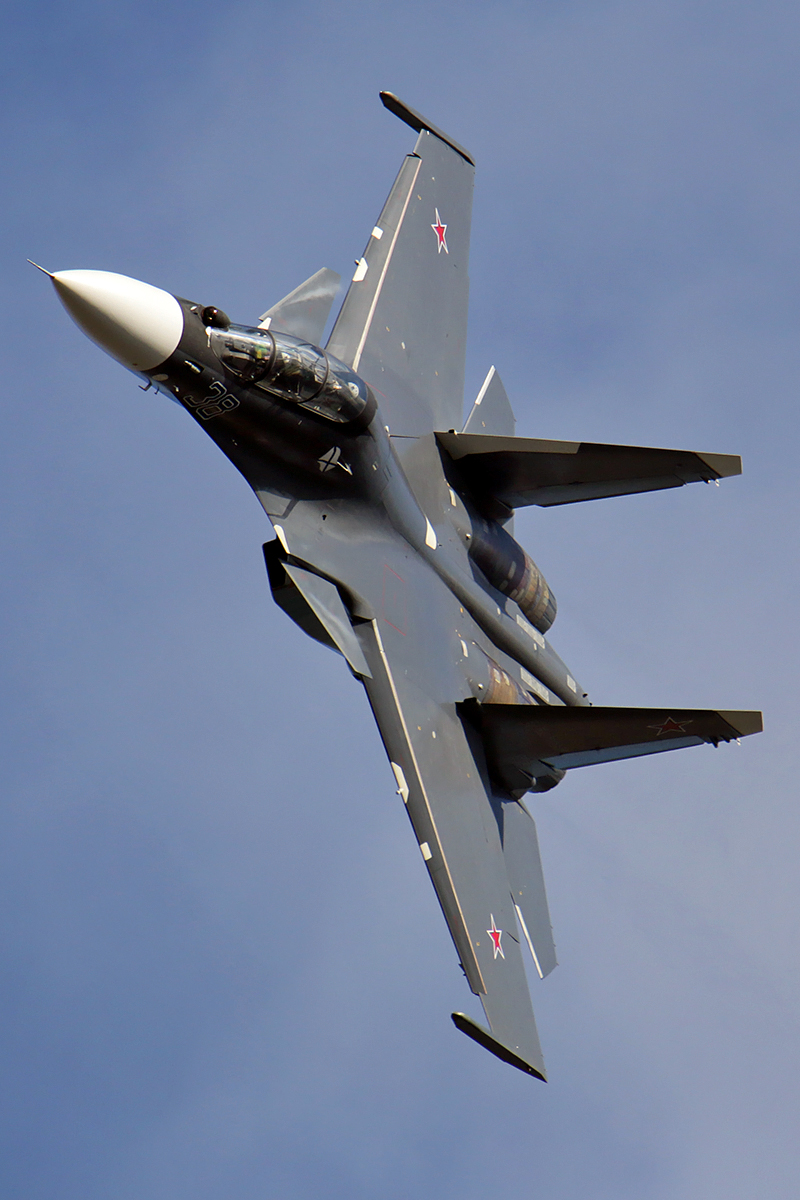 Sukhoi Su-30SM at MAKS Airshow 2015